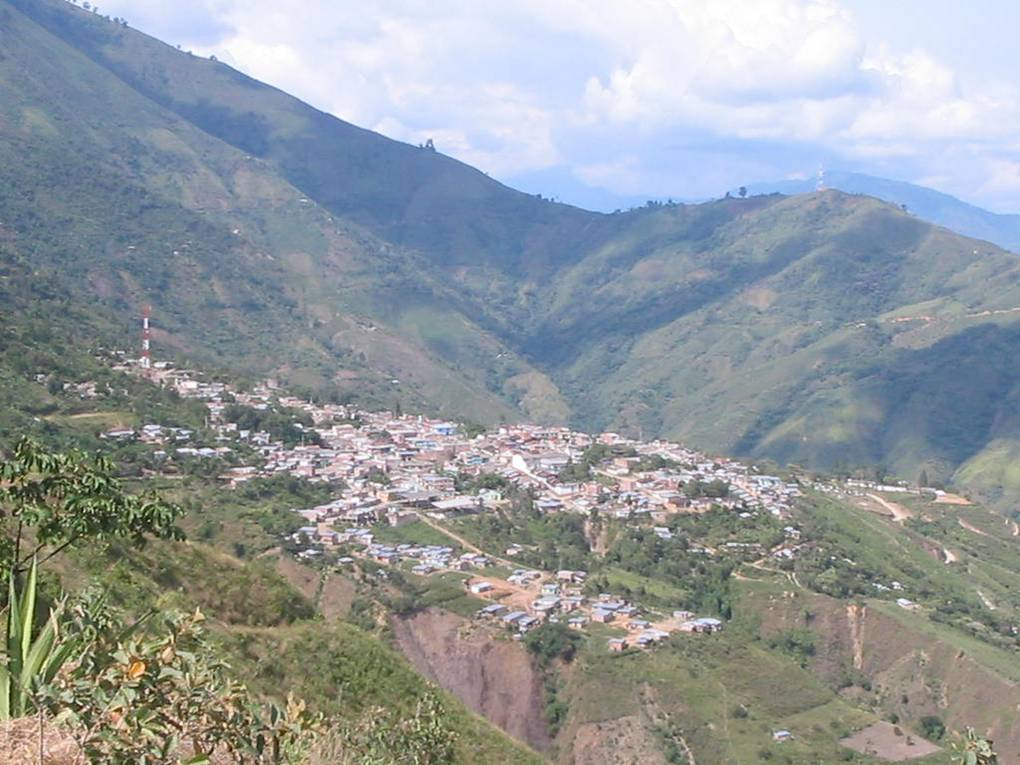 Panorama of the town of Leiva (Nariño) from the village of Las Huertas.